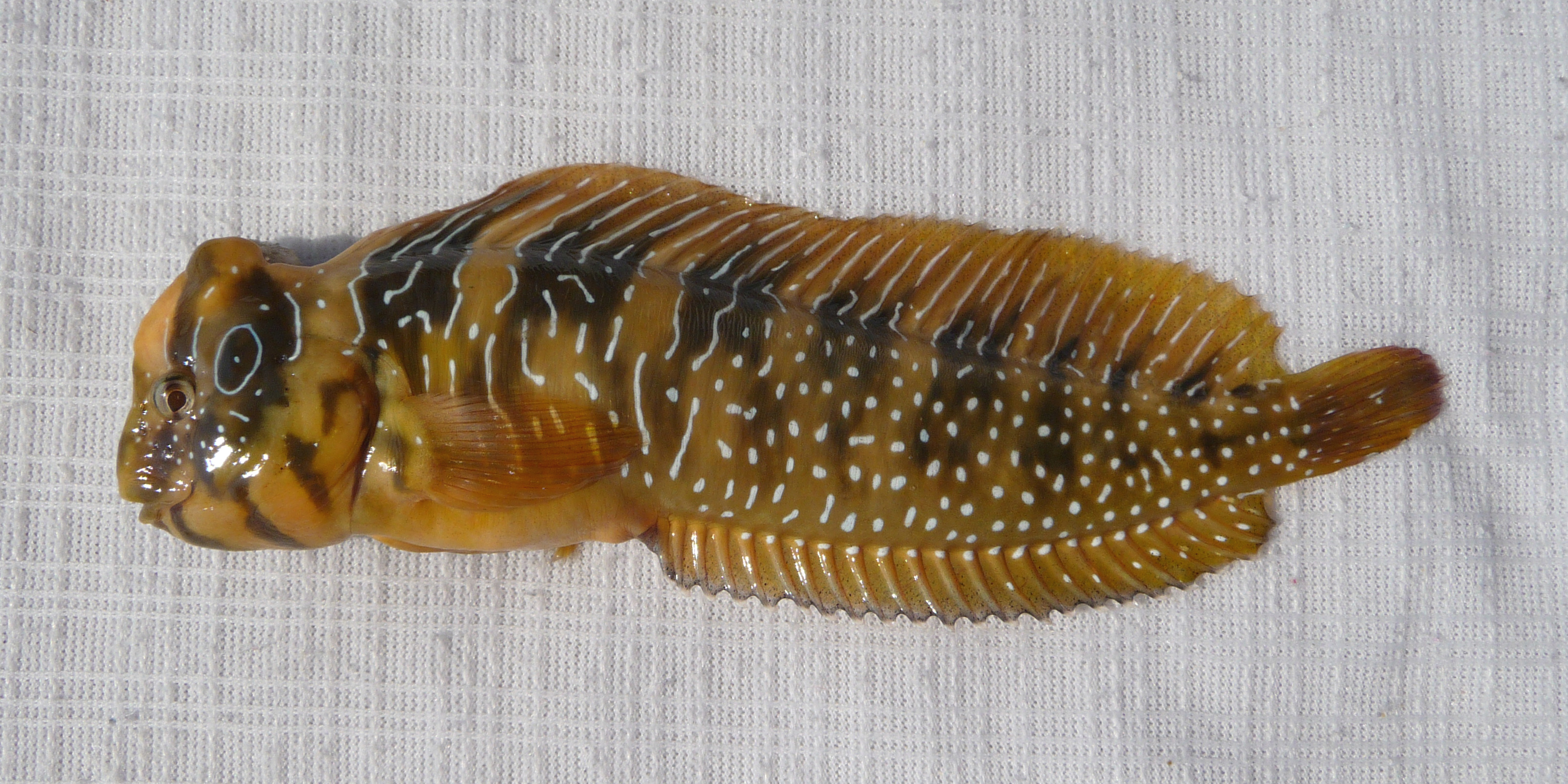 Salaria pavo (Risso, 1810). Peacock blenny male. This funny predatory fish was caught in the Black sea. Wet matter was used as a background to prevent damage to its skin. After very short photosession the fish was released back to the sea. This fish is able to change colour, like a chameleon. Geogoding of the location at which it was caught and photographed are the same.